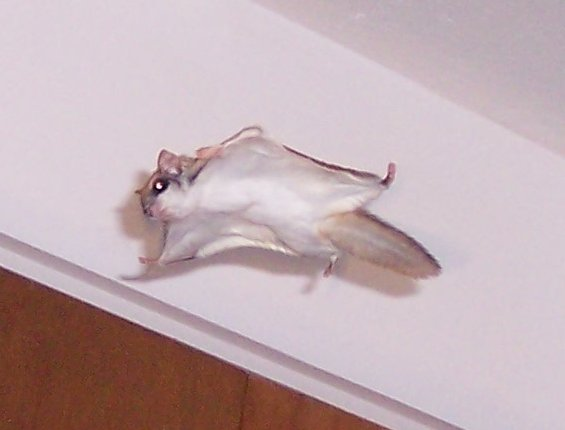 Southern Flying Squirrel in flight. Photographed by author (Michael Hays), 5, Oct, 2005.